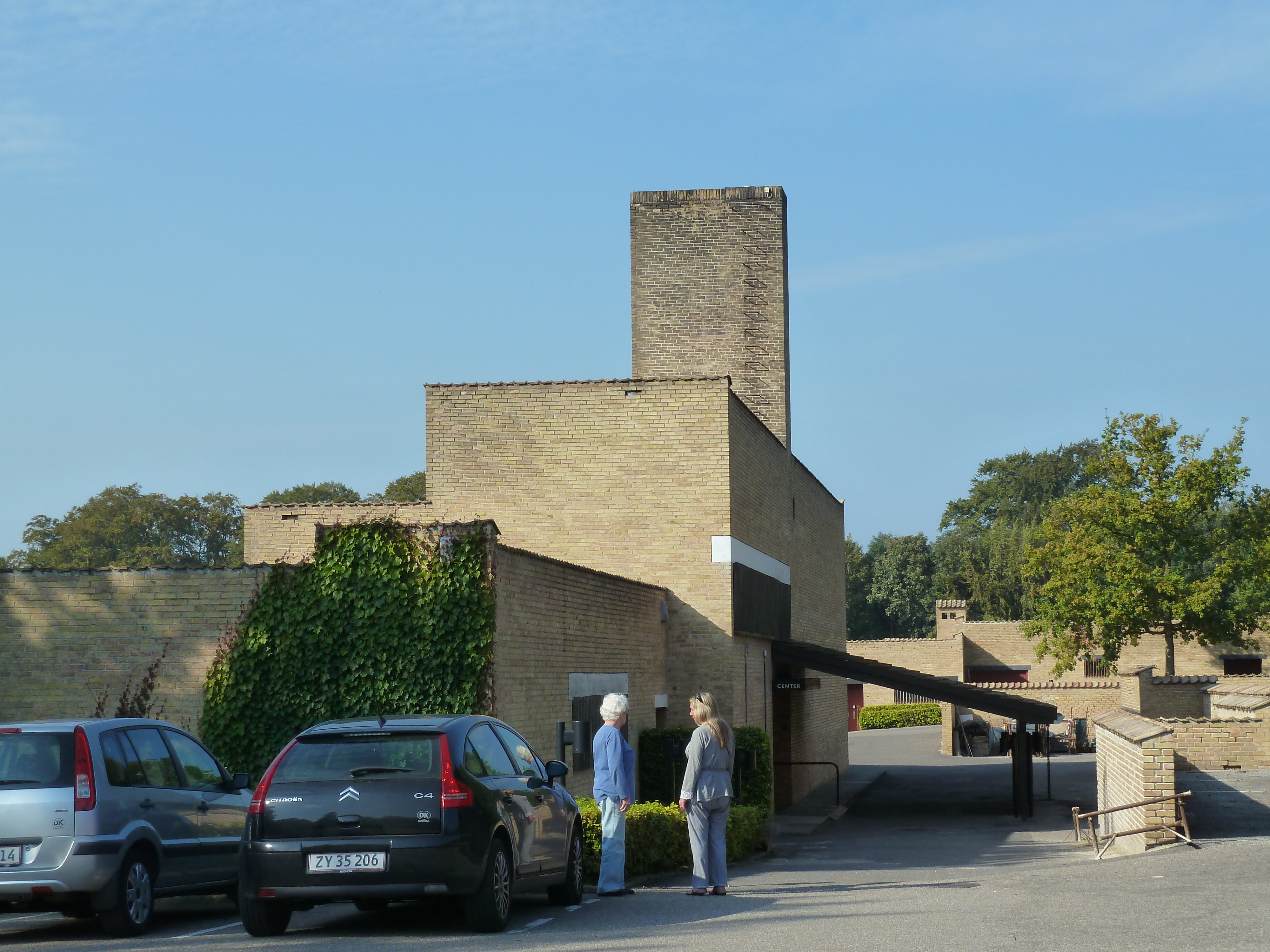 The central module of the Fredensborg Houses in Fredensborg, Denmark, containing restaurant and library